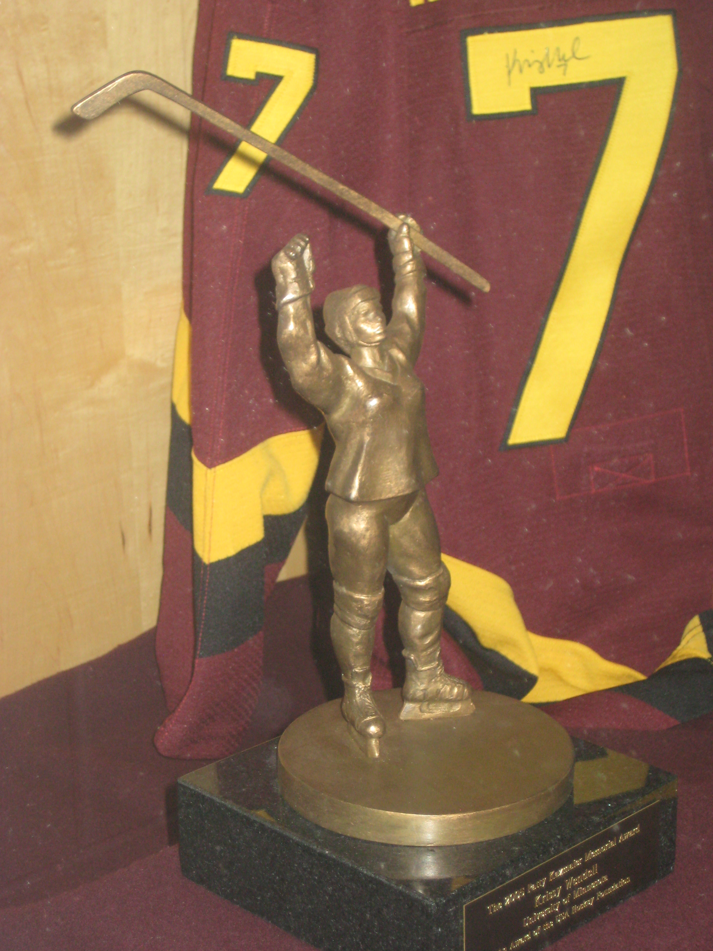 The Patty Kazmaier award at Ridder Arena in Minneapolis, MN.